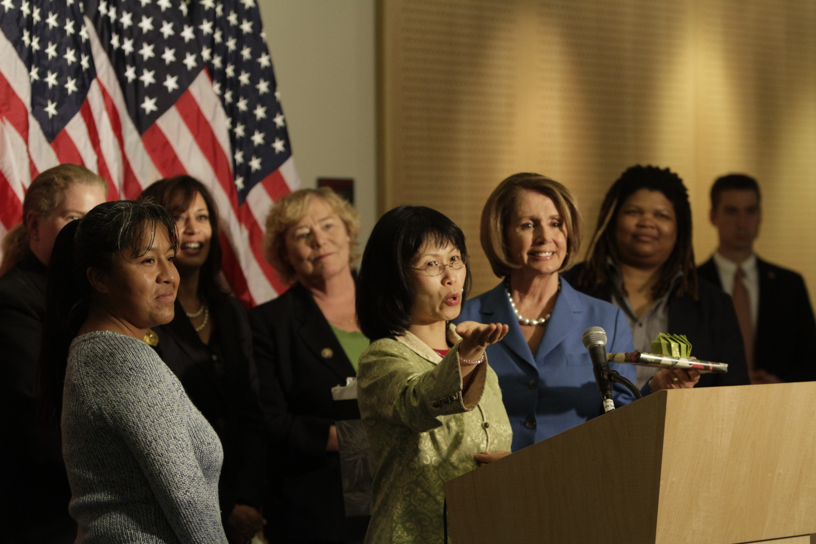 Congresswoman Pelosi joins small business owners Connie Rivera and Kim Le, Andrea Shorter of the San Francisco Commission on the Status of Women, San Francisco Fire Chief JoAnne Hayes-White, District Attorney Kamala Harris, and Rep. Zoe Lofgren to celebrate the 90th Anniversary of the 19th Amendment, which gave women the right to vote in the United States.